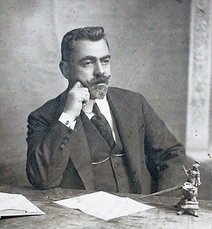 Ali Rifat Cagatay (1867–1935)